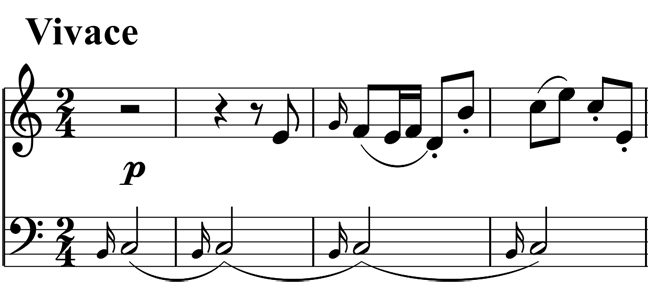 Joseph Haydn, Symphony No. 82, last movement Vivace, violin 1 and bass, bar 1-4